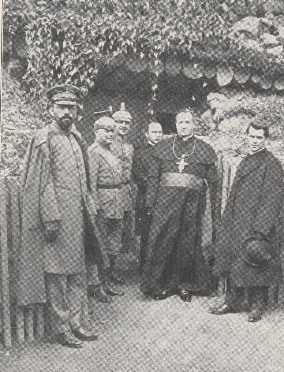 Rev. Fr. Jakob Weis, Zeibrücken, 1916